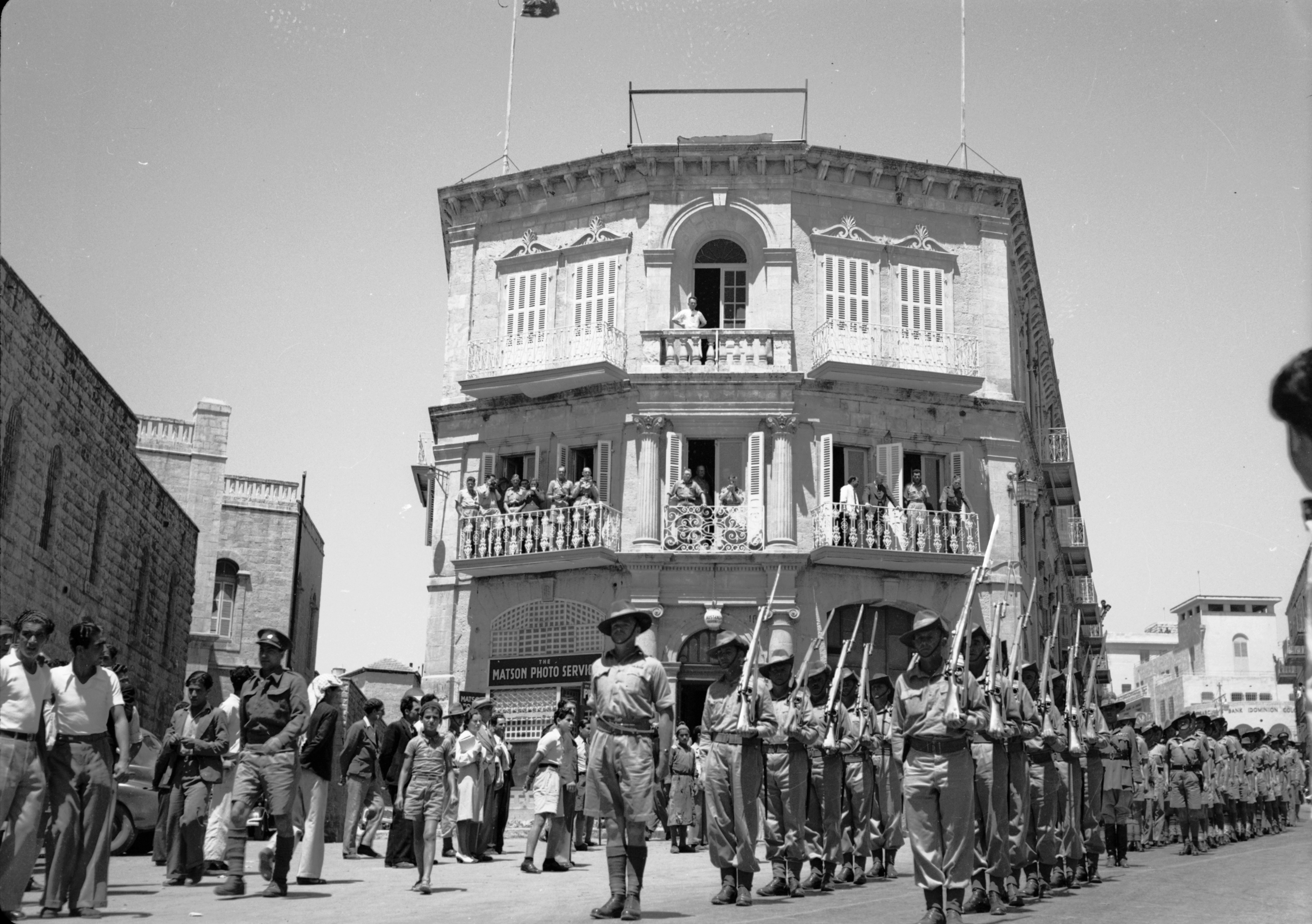 Anzac Day. April 25, 1942 [Jerusalem]. The Matson Photo Service store was located on the first floor of building (formerly the Fast Hotel